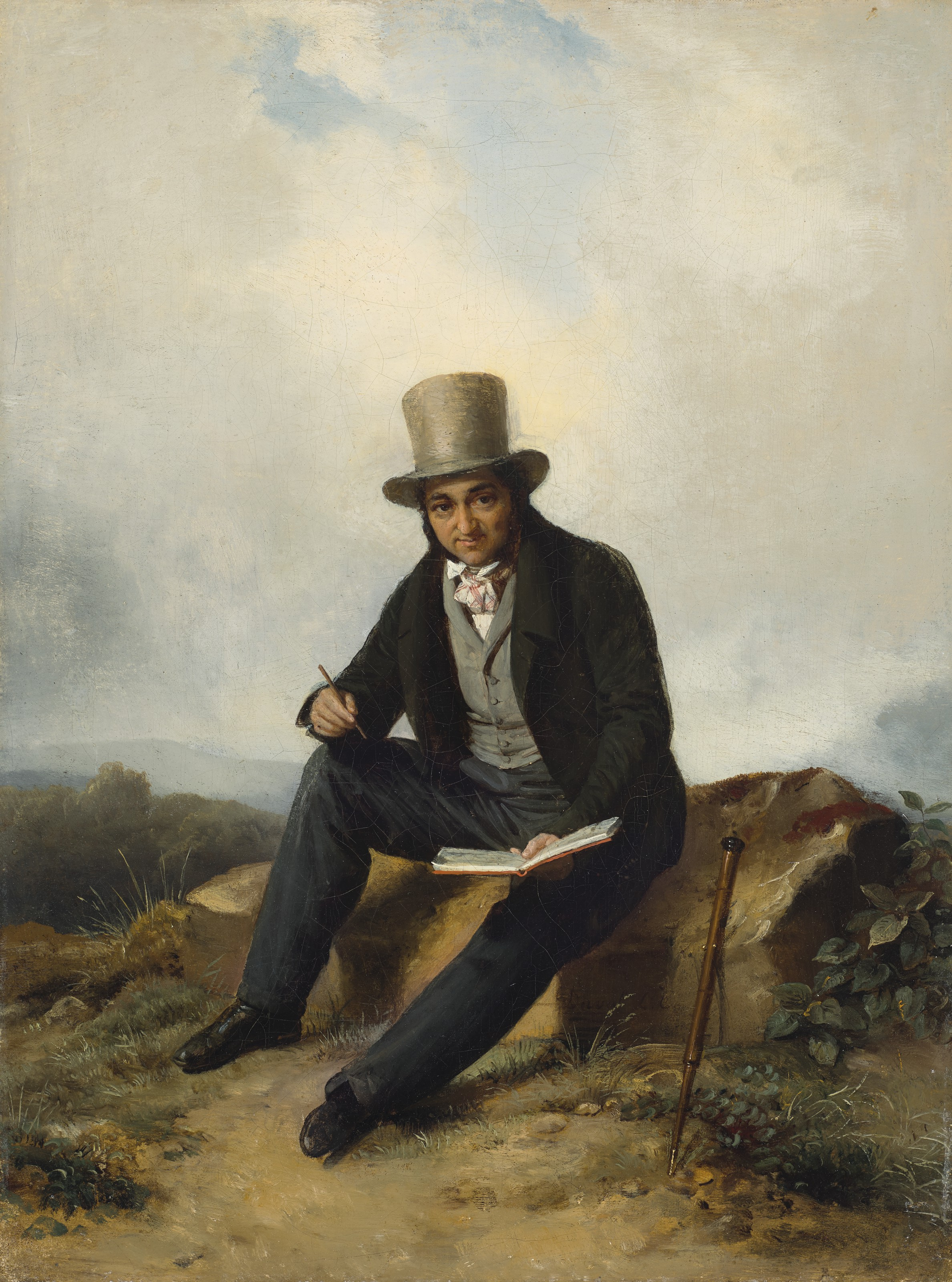 Portrait of the painter, Andre Jolivard, seated in a landscape.